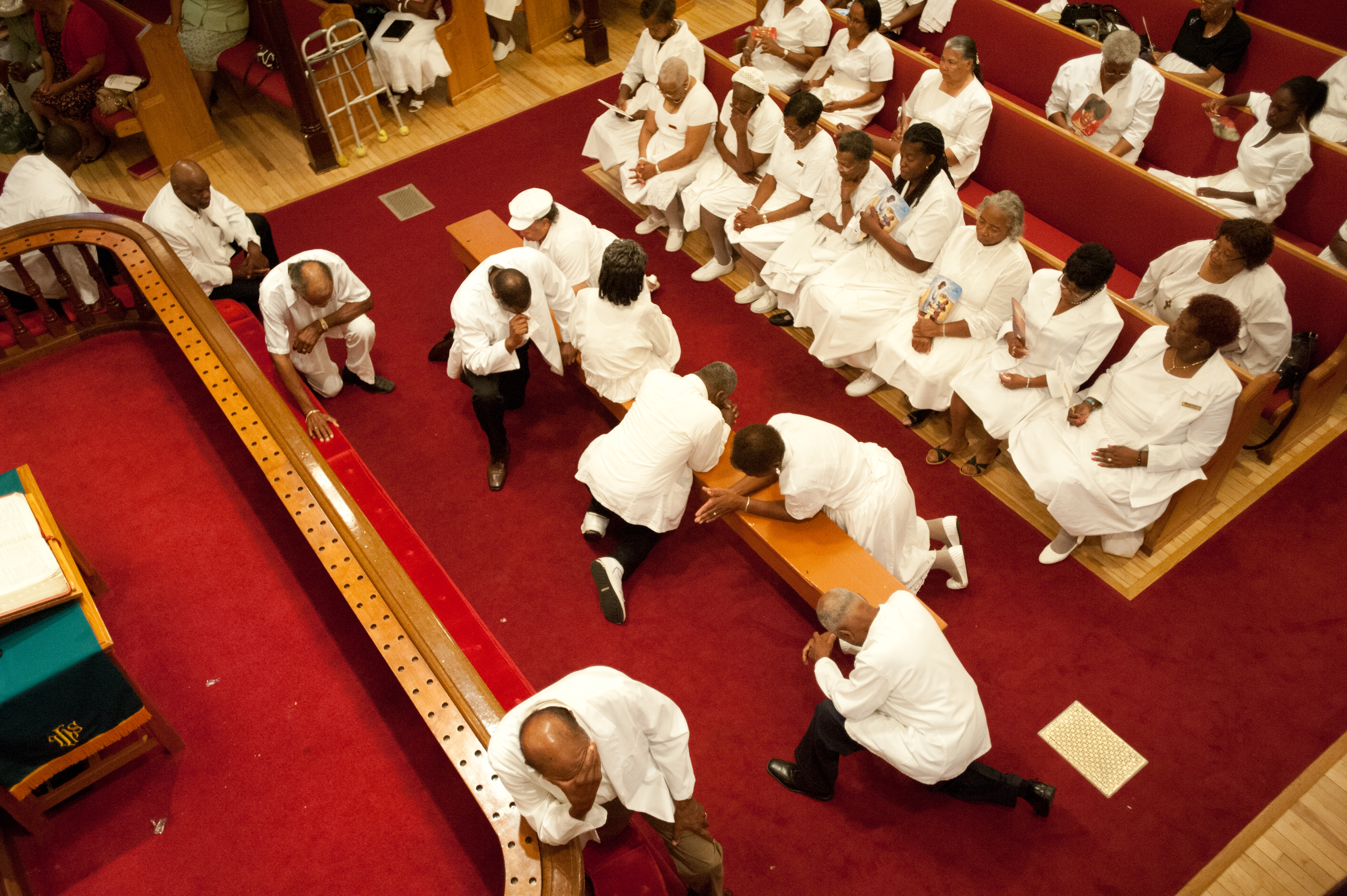 Some members of Mt. Zion United Methodist Church praying at the mourners' bench, located in front of the chancel.